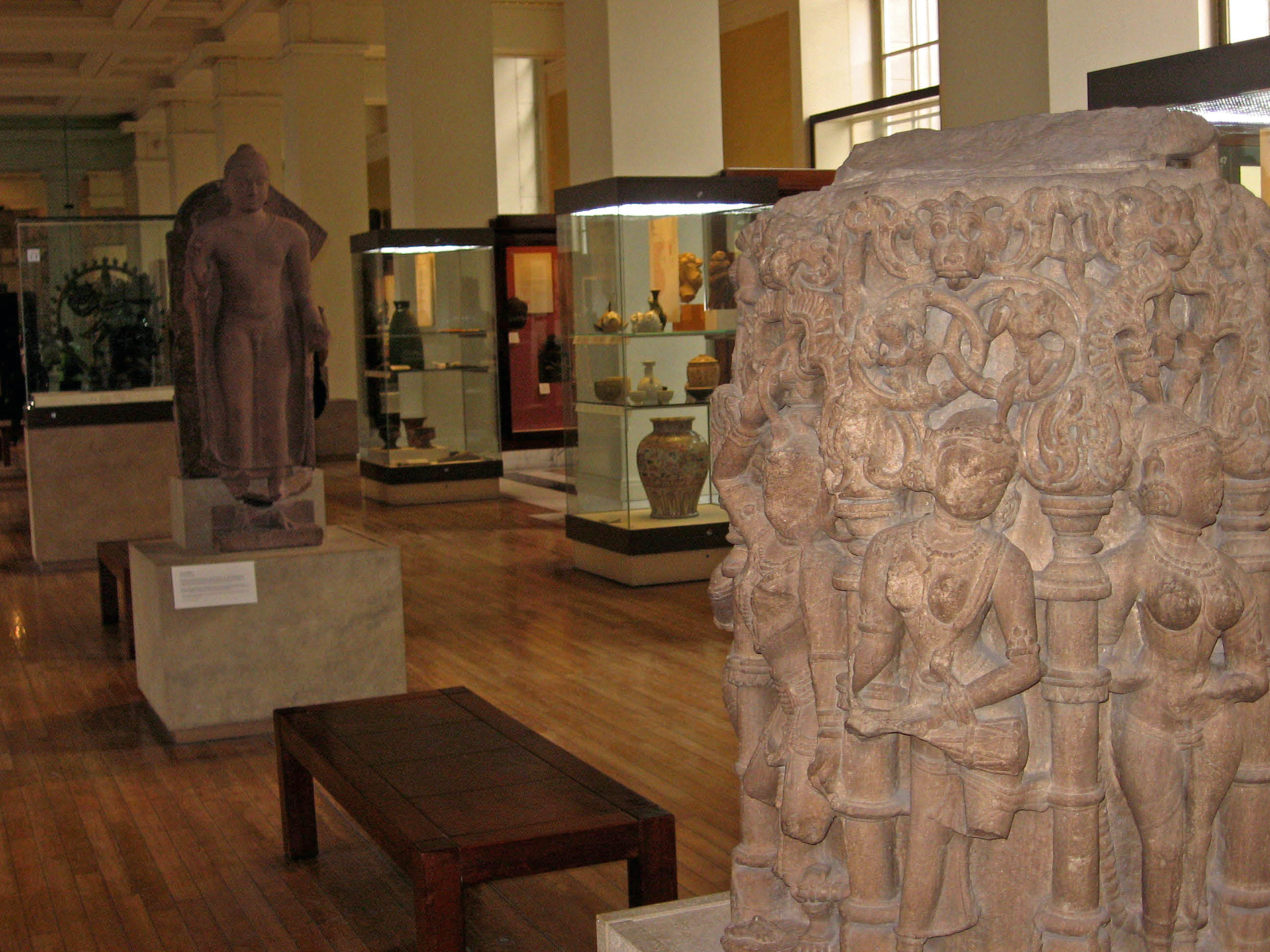 Photo taken at the British Museum - Asian Gallery